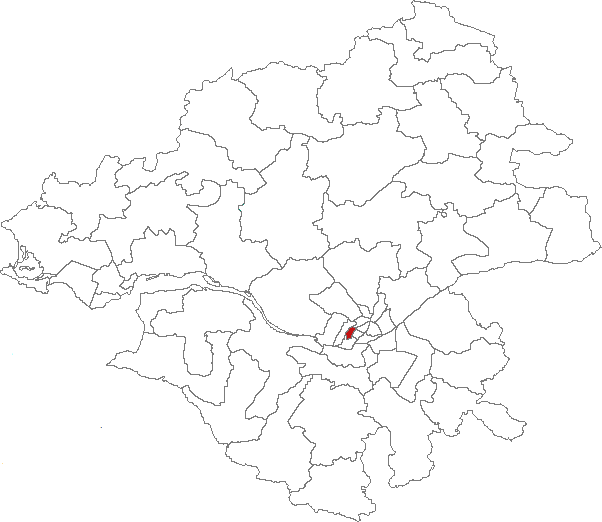 Map of canton of France : Canton de Nantes-11, Loire-Atlantique, France